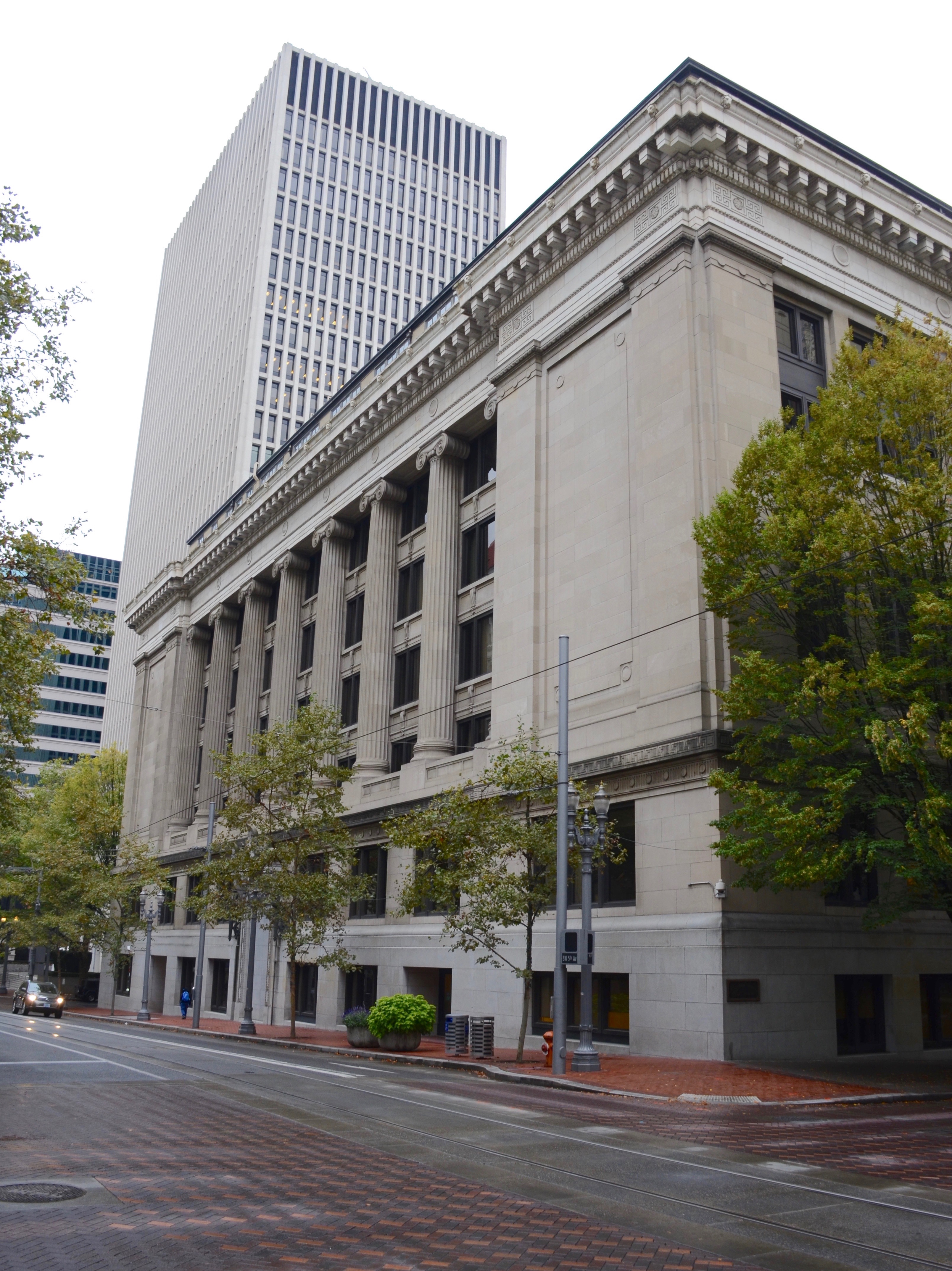 The 5th Avenue side of the Multnomah County Courthouse, in downtown Portland, Oregon, viewed from just south of Main Street. A new courthouse is under construction elsewhere in downtown to replace this building's function. In the background is the 27-story Standard Insurance Center.